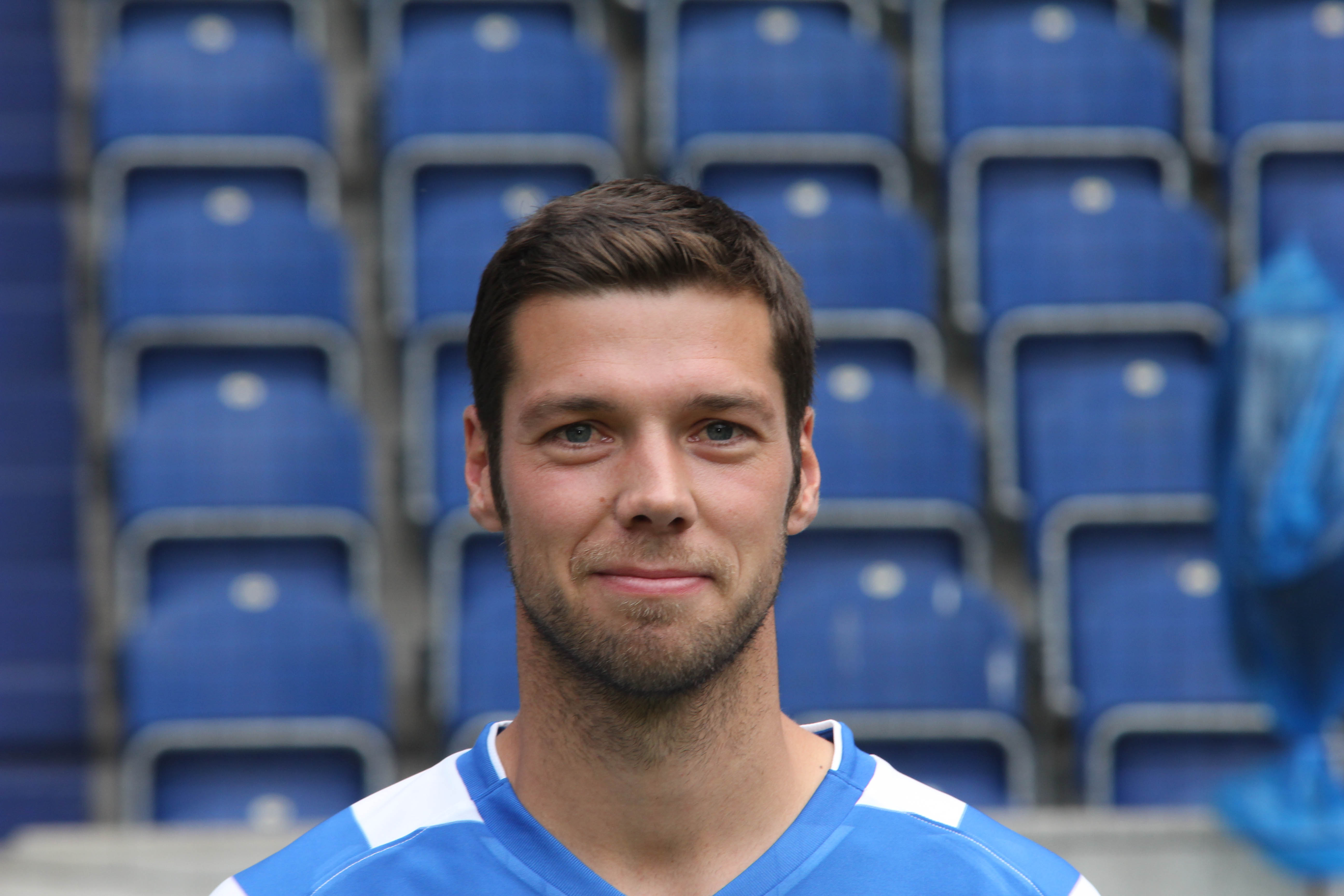 German footballer Markus Bollmann, MSV Duisburg